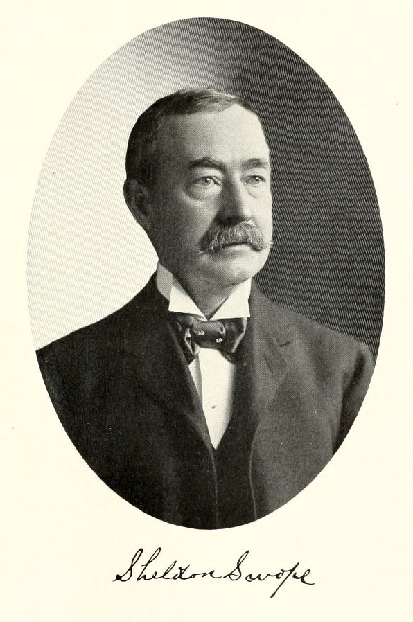 Portrait of Sheldon Swope, benefactor of the Swope Art Museum. Taken from the book Greater Terre Haute and Vigo County : closing the first century's history of city and county, showing the growth of their people, industries and wealth (1908) by C. C. Oakey